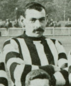 Photograph of Harold Gyton in 1908